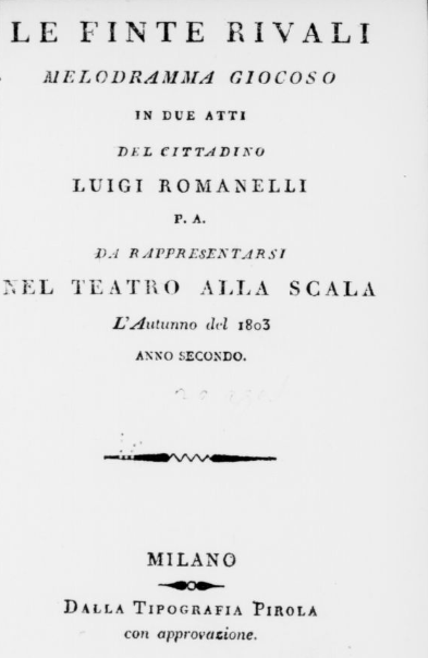 Title page of the libretto for Simon Mayr's opera Le finte rivali, printed for the world premiere at La Scala in 1803